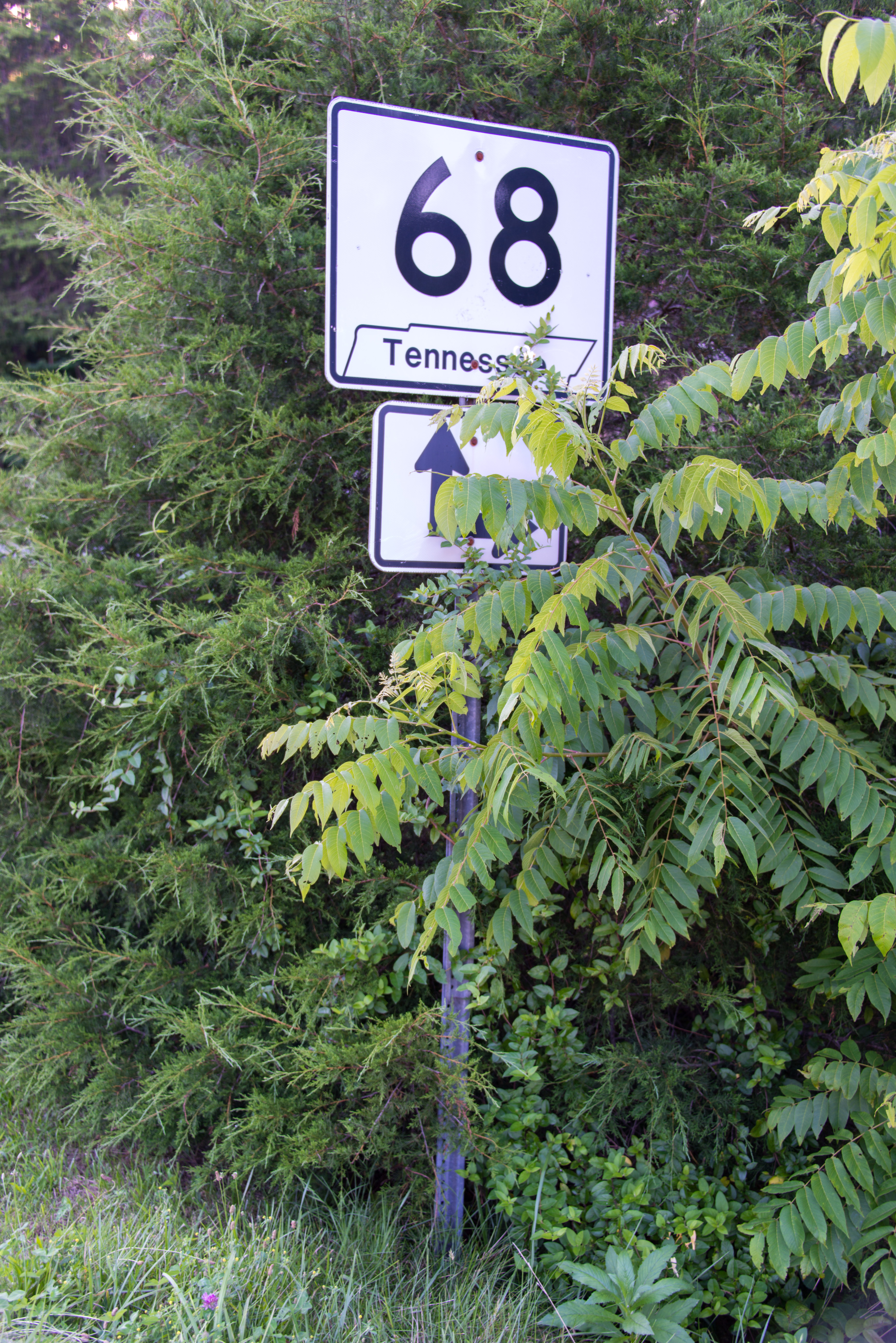 Tennessee State Route 68 sign being engulfed by vegetation. At the split with Tennessee State Route 123.